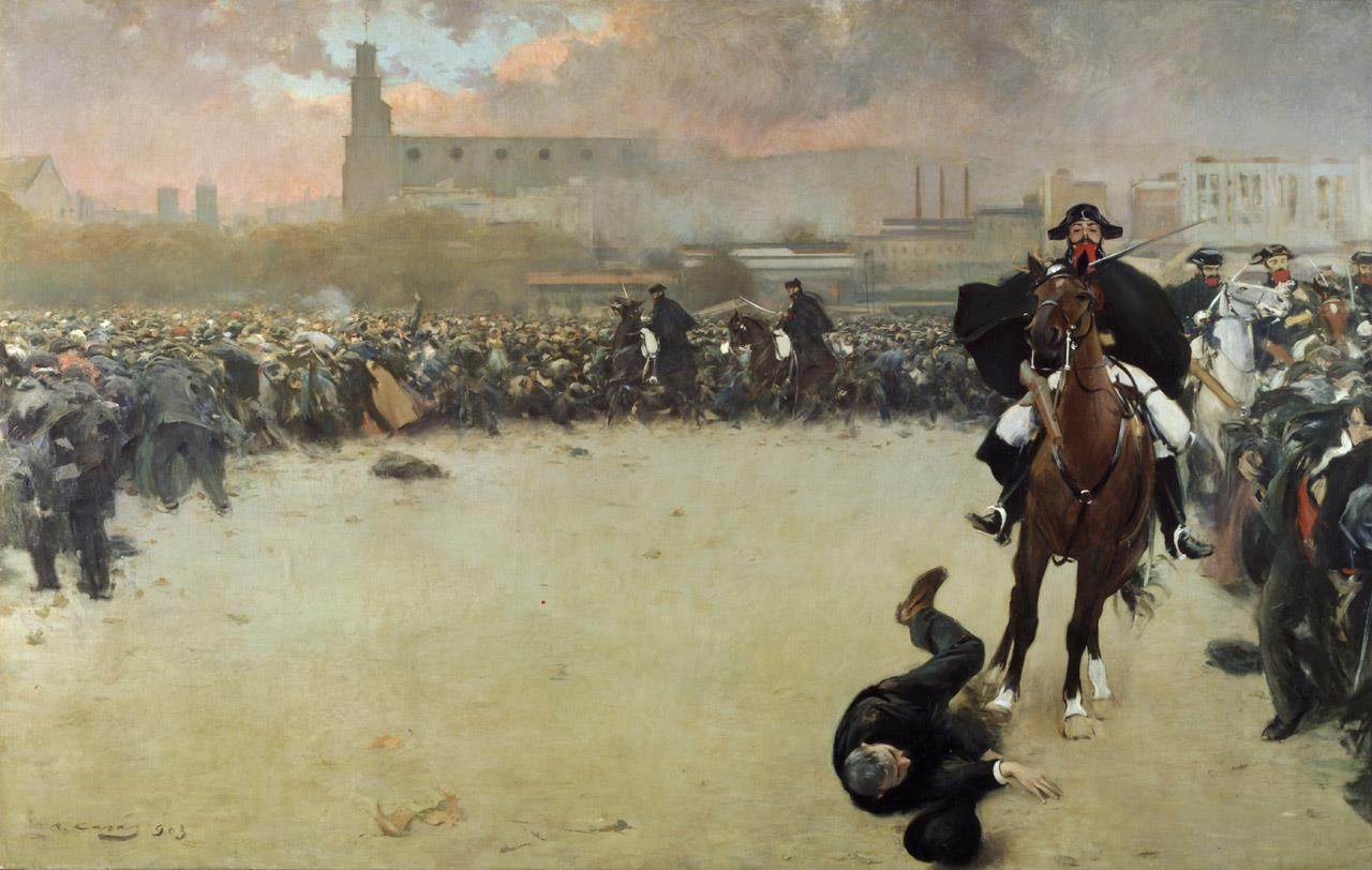 Ramon Casas i Carbó (1866–1932), La Carga (The Charge) or Barcelona 1902. Despite the title and the 1903 signature, the piece was executed 1899-1900 (from [1])